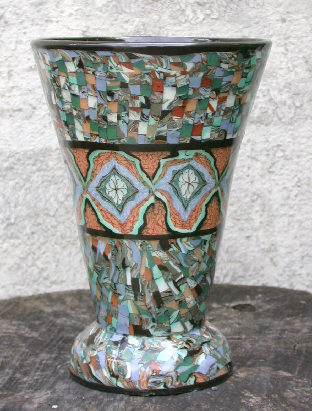 Gerbino vase, Vallauris, France